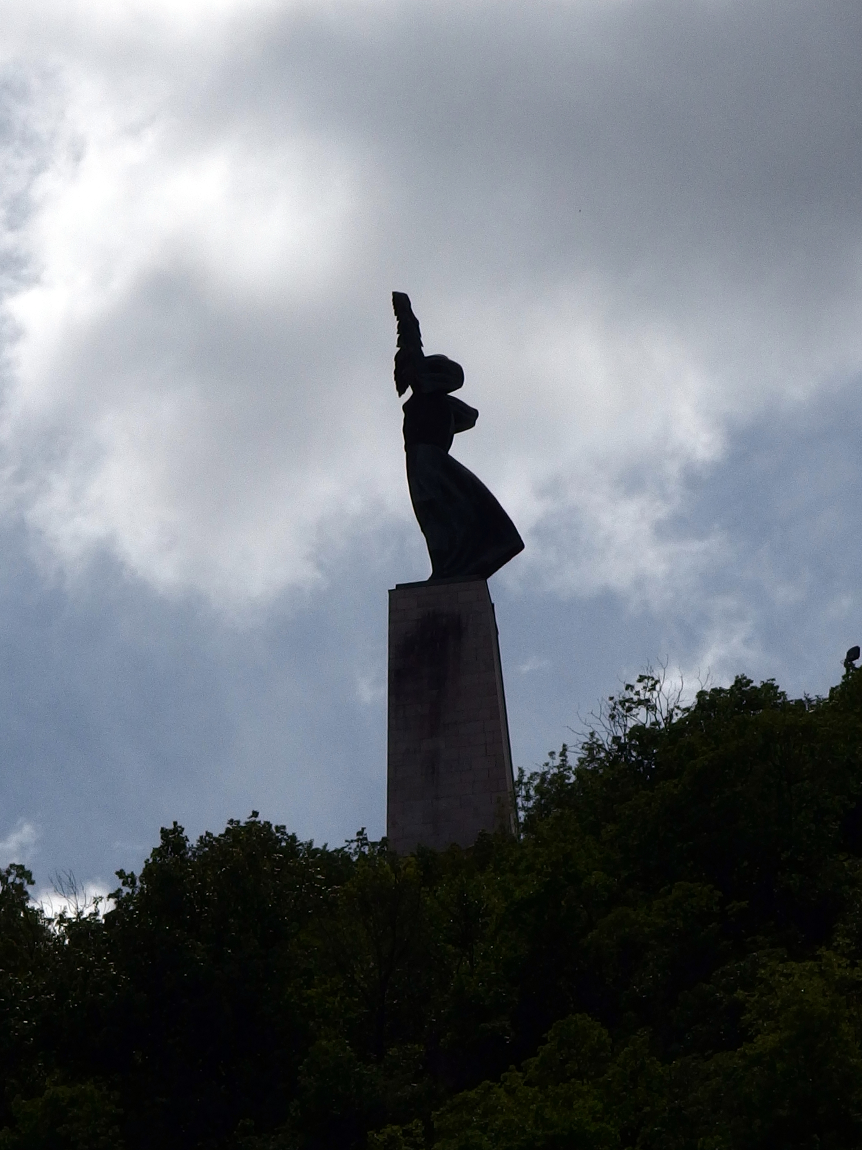 2013-06-12 in Budapest.